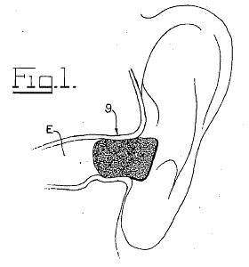 First ear protector